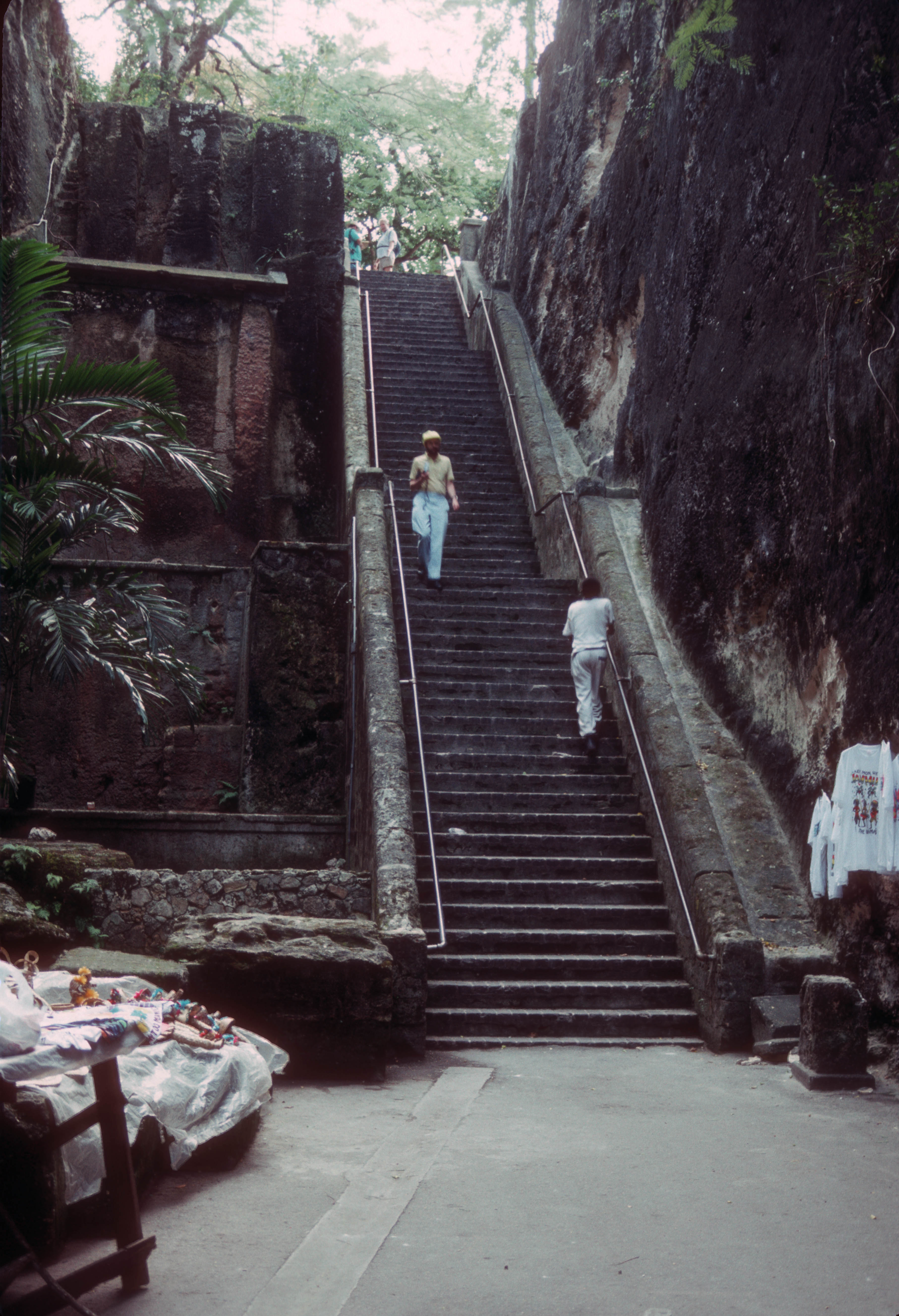 CARVED OUT OF SOLID LIMESTONE IN THE LATE 18TH C. BY SLAVES; IT HAS 65 STEPS AND IS NAMED FOR QUEEN VICTORIA WHO REIGNED FOR 65 YEARS; THIS IS THE VIEW FROM THE BOTTOM